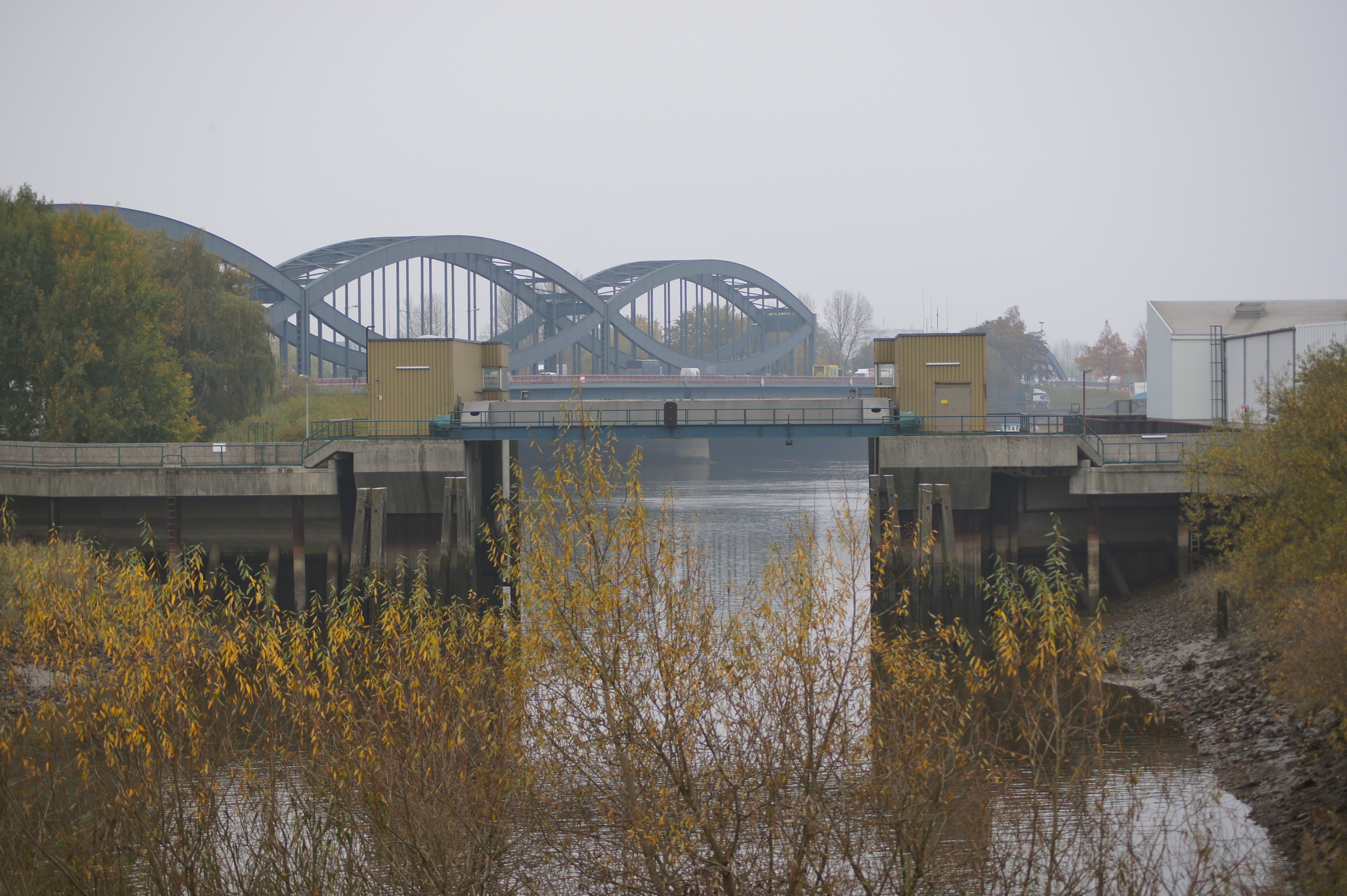 Hamburg (Veddel), Germany: The new bridge over the Elbe as seen from the Marktkanal